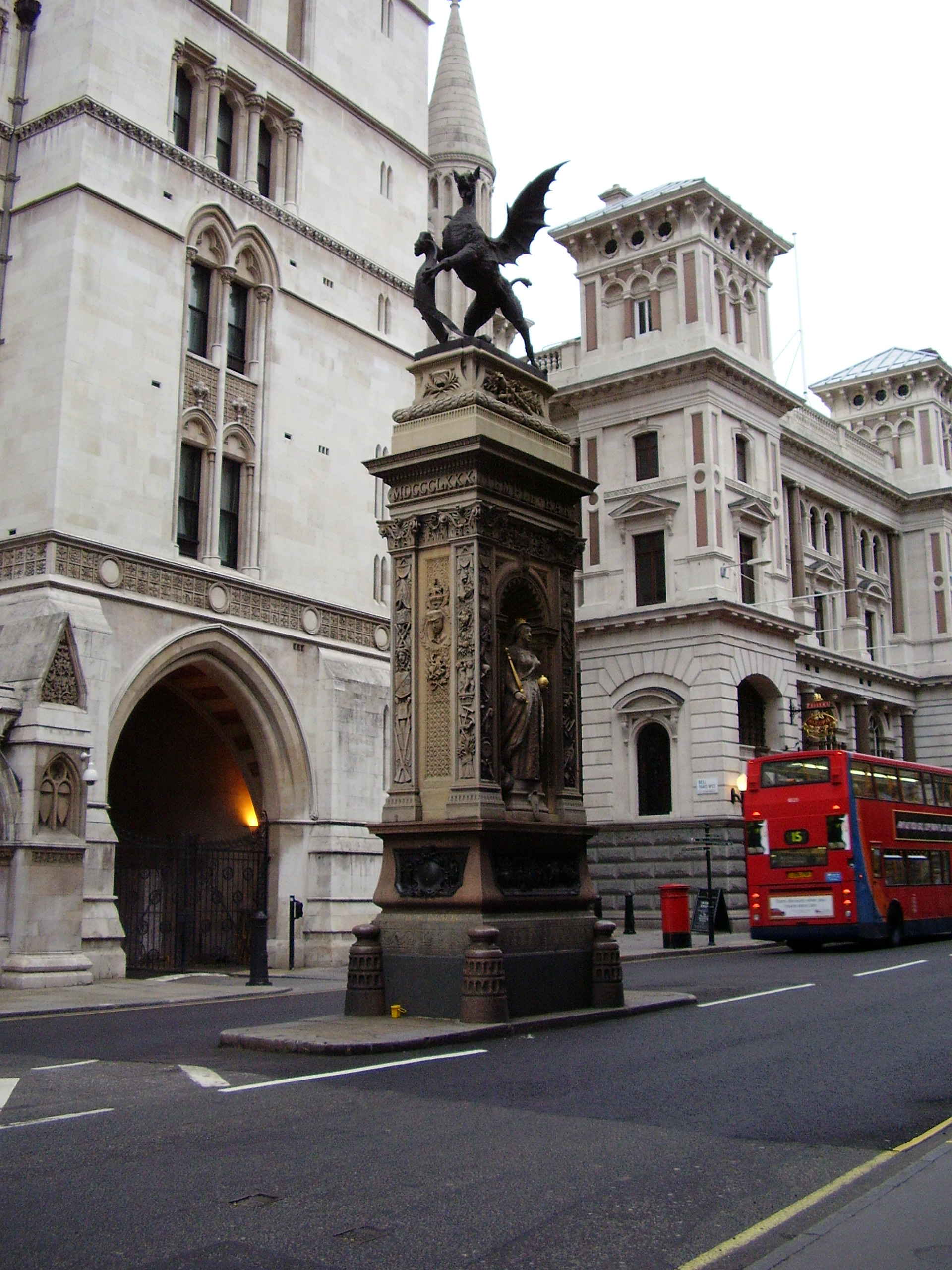 Monument marking former site of Temple Bar, London